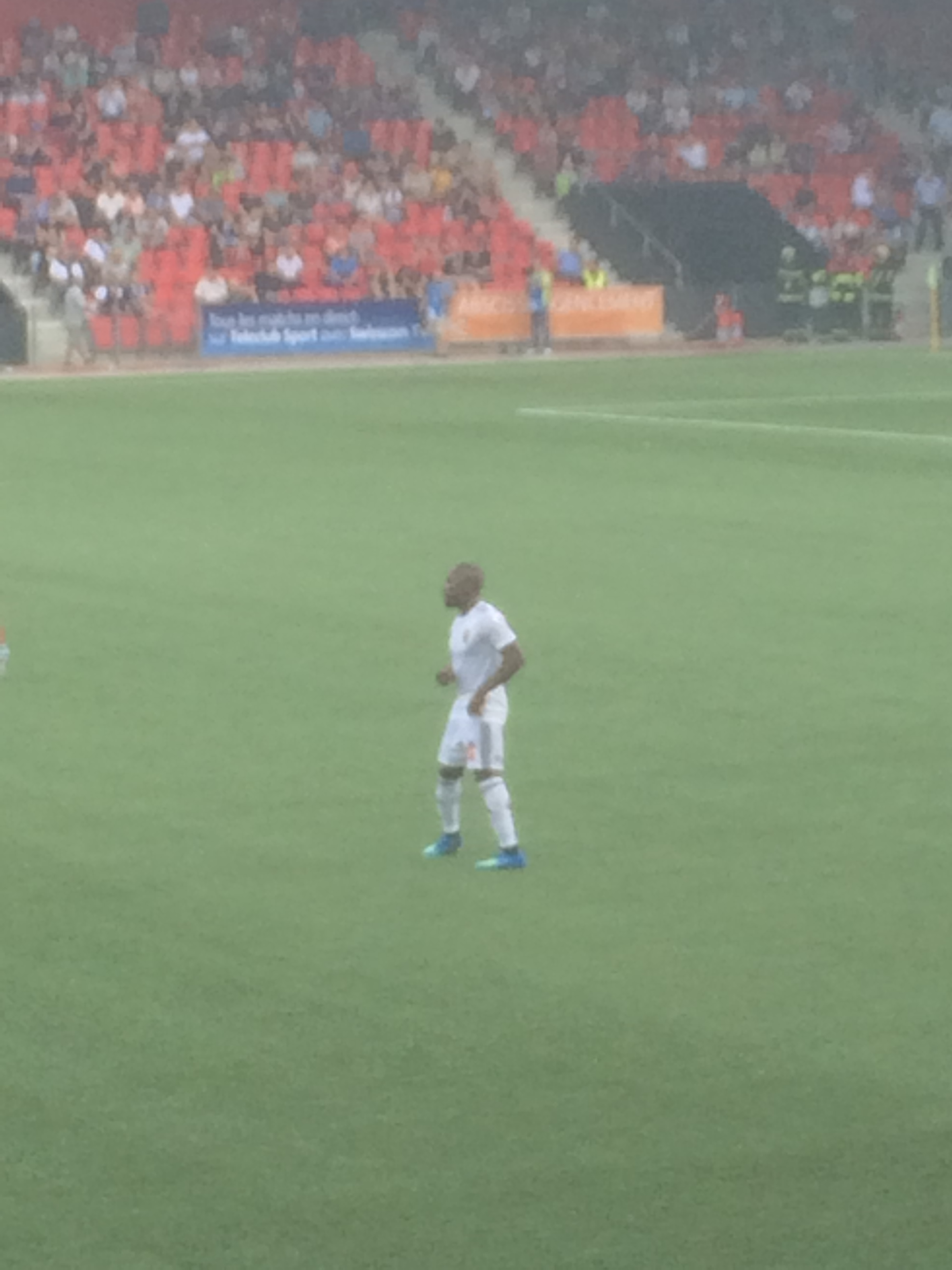 Aldo Kalulu in july 2018